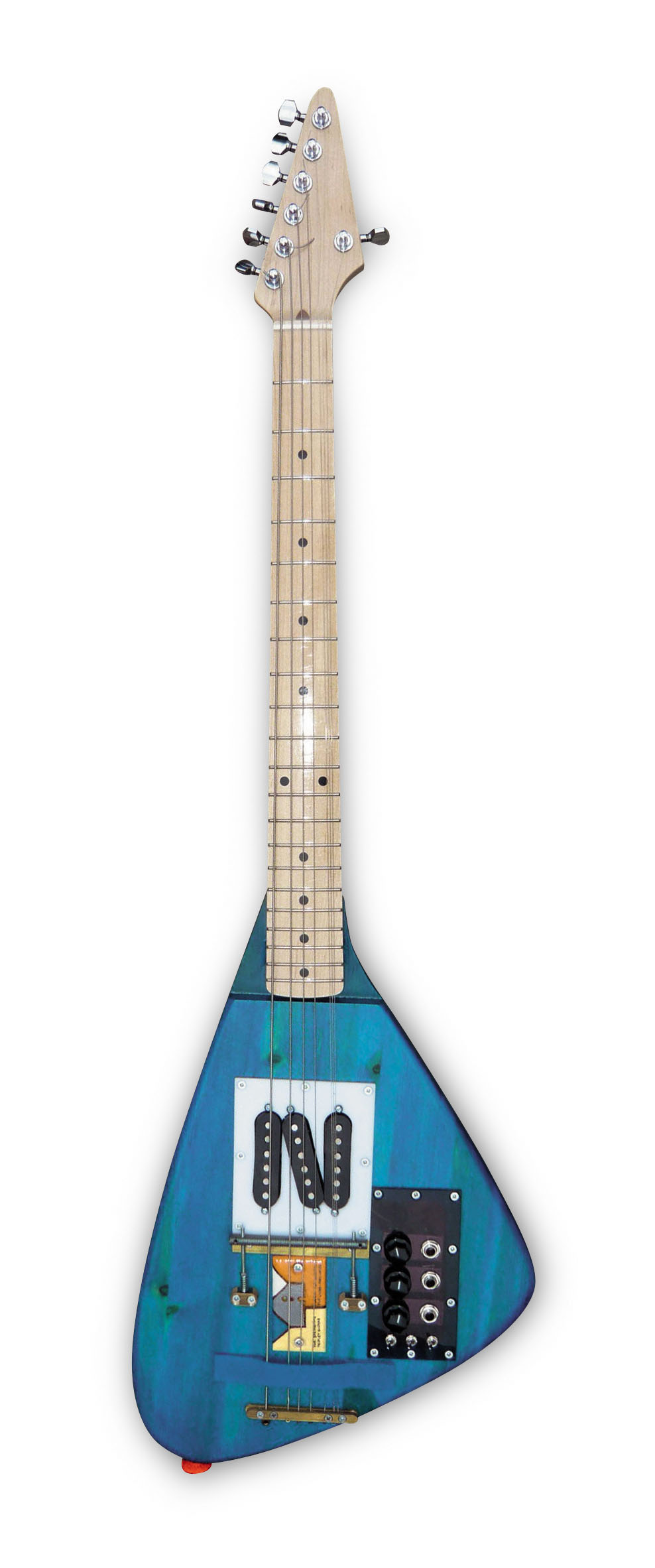 this picture is taken by me. The guitar is built by me. No rights reserved on this pic, please use it properly. Best regards, Yuri Landman